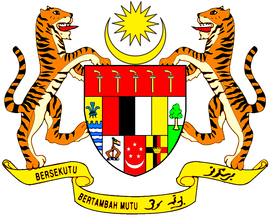 Malaysia Crest that used from 1963-1965, it was created when the three new State was existed including Sabah, Sarawak and Singapore to form the federal State of Malaysia. However, Singapore was joining the Federation only two years and severed from the Federation of Malaysia on 9 August 1965.